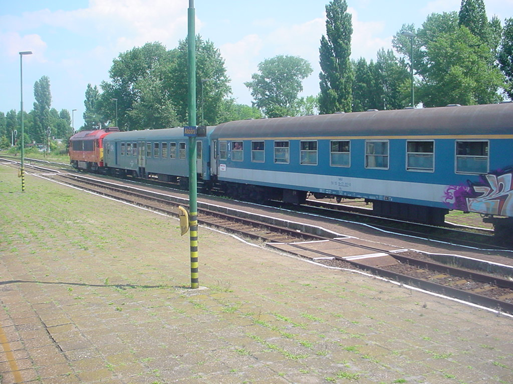 Train in Alsóörs, Hungary